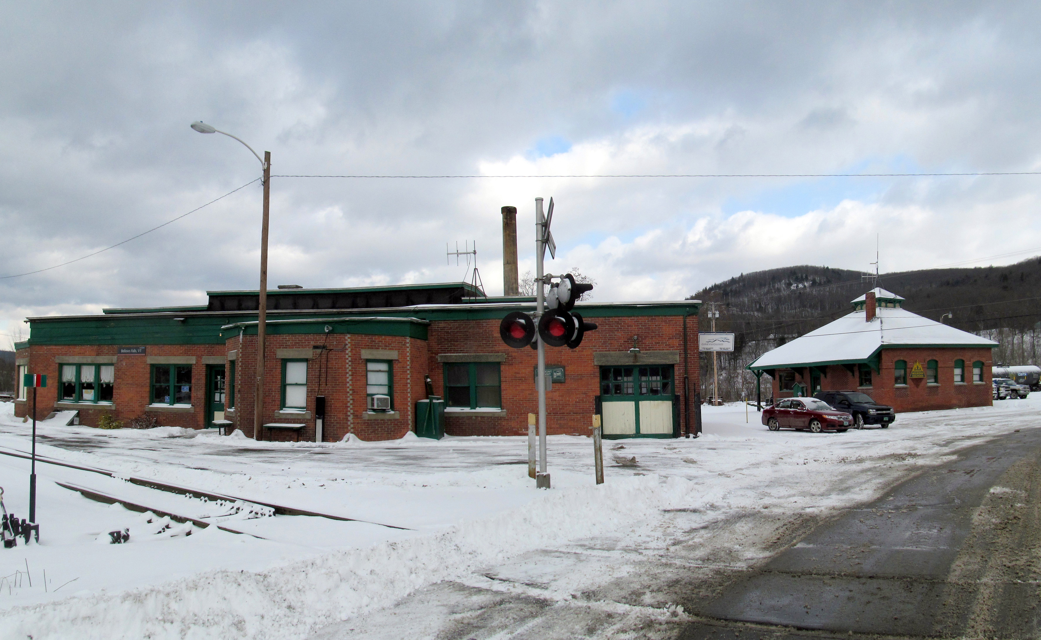 Bellows Falls station in January 2015. The 1925-built station used by Amtrak is at left, while the circa-1880-built Railway Express Agency building used by the Green Mountain Railroad is at left.